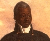 Portrait of Henri Christophe, King of Haiti